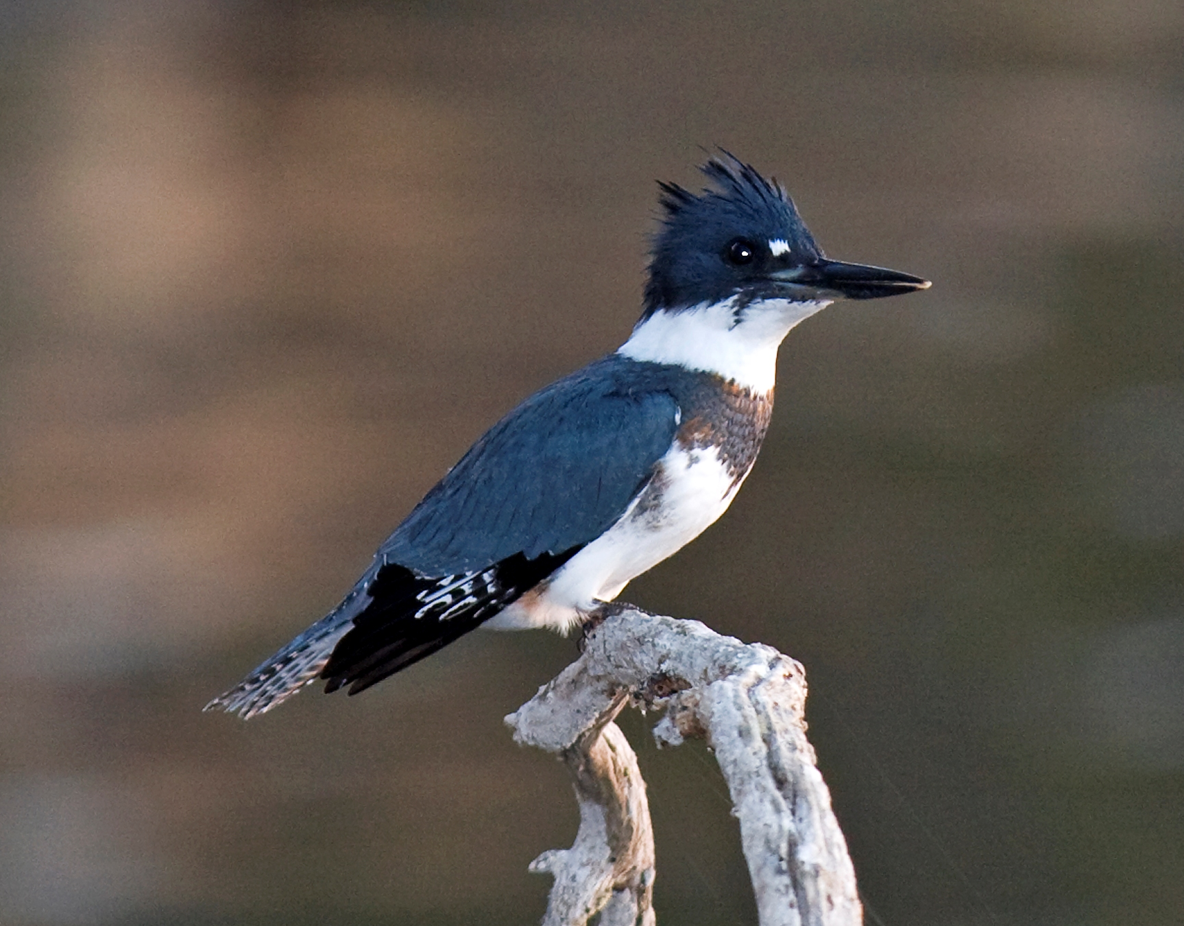 Male Belted Kingfisher Megaceryle alcyon, Morro Bay, California. Canon 40D with 300mm f/2.8L IS, 580EX flash with Better Beamer in ETTL mode FEC 0.